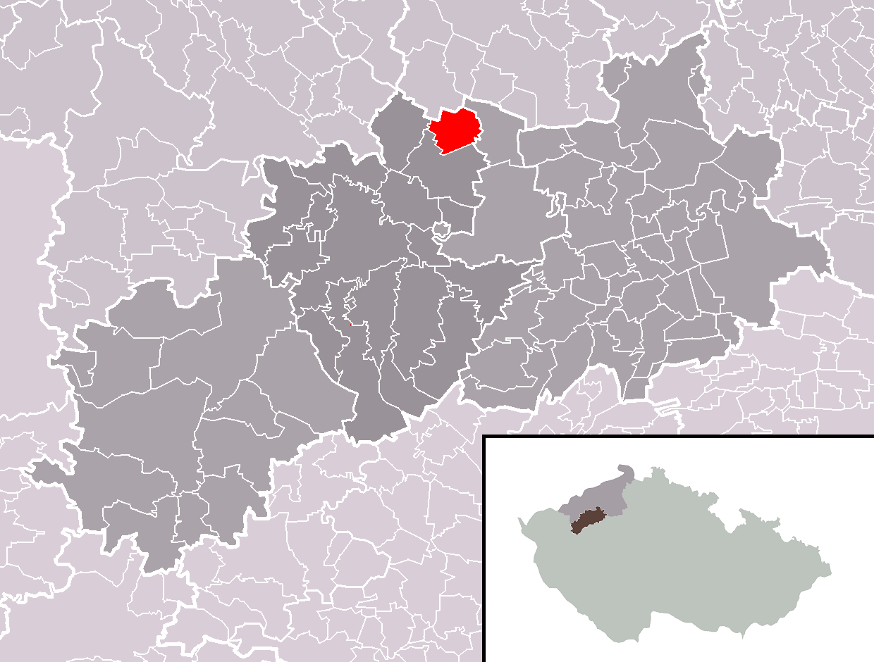 Location of Blažim municipality within Louny District and administrative area of Žatec as a Municipality with Extended Competence.